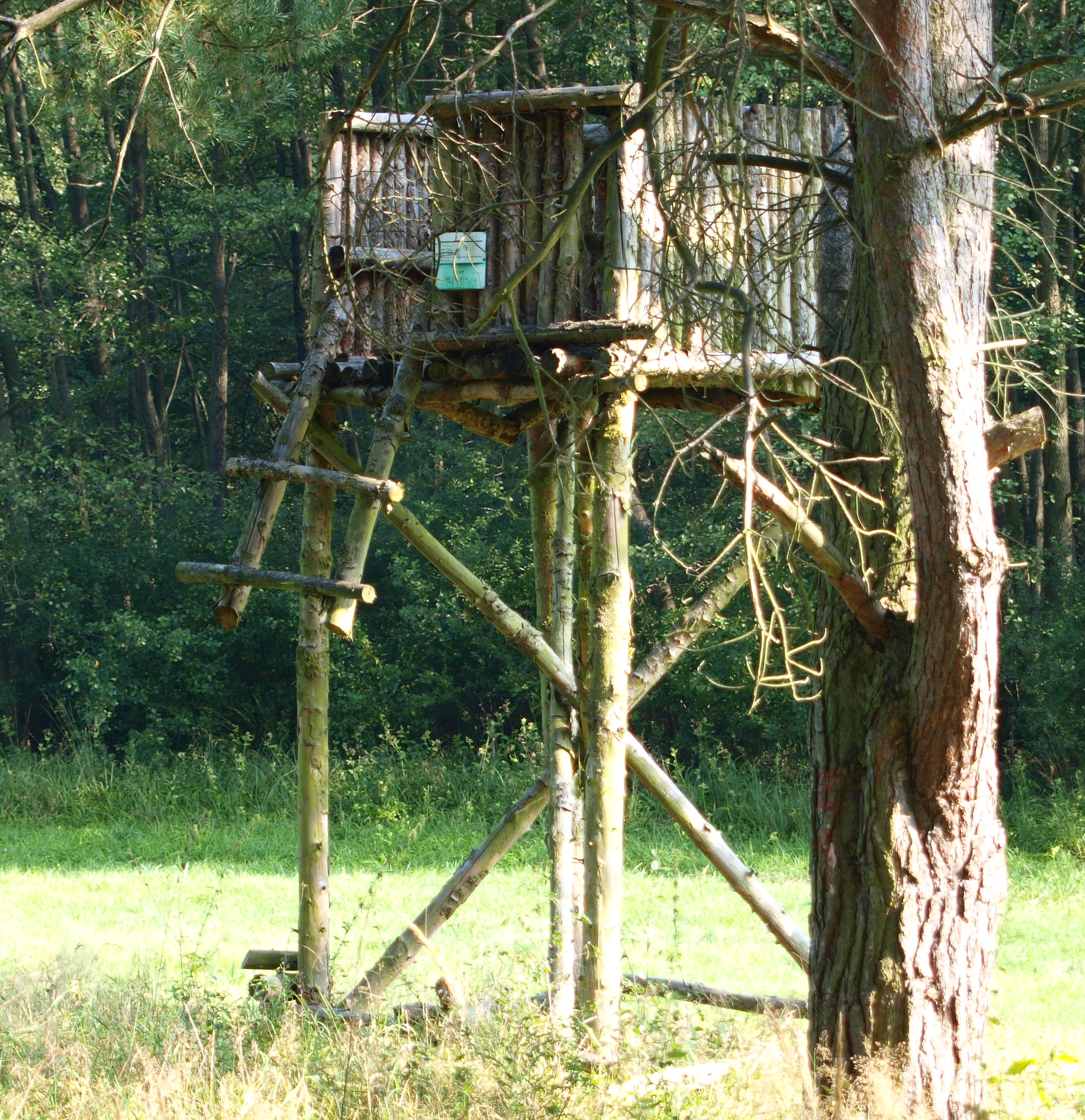 sawed off ladder